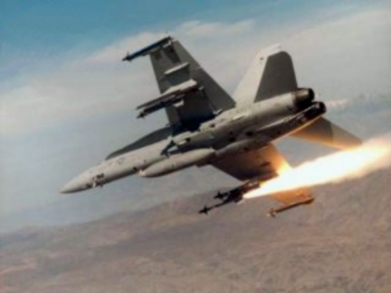 A U.S. Navy McDonnell Douglas F/A-18A Hornet firing an AIM-9R Sidewinder missile at China Lake, California (USA), 5 April 1991.